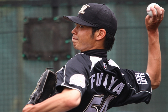 Shuhei Fujiya, pitcher of the Chiba Lotte Marines.